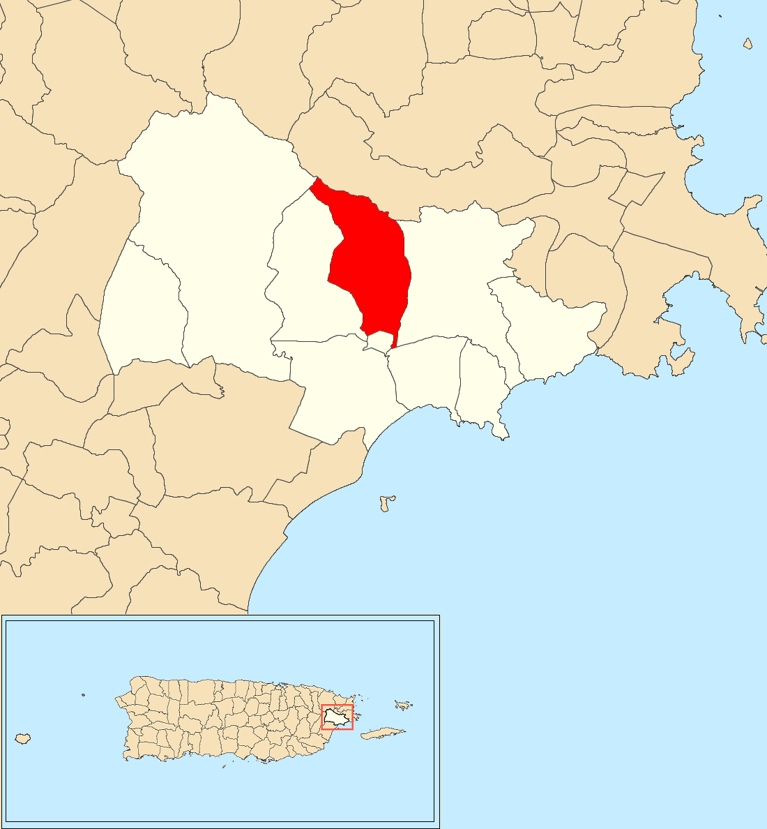 Duque, Naguabo, Puerto Rico locator map